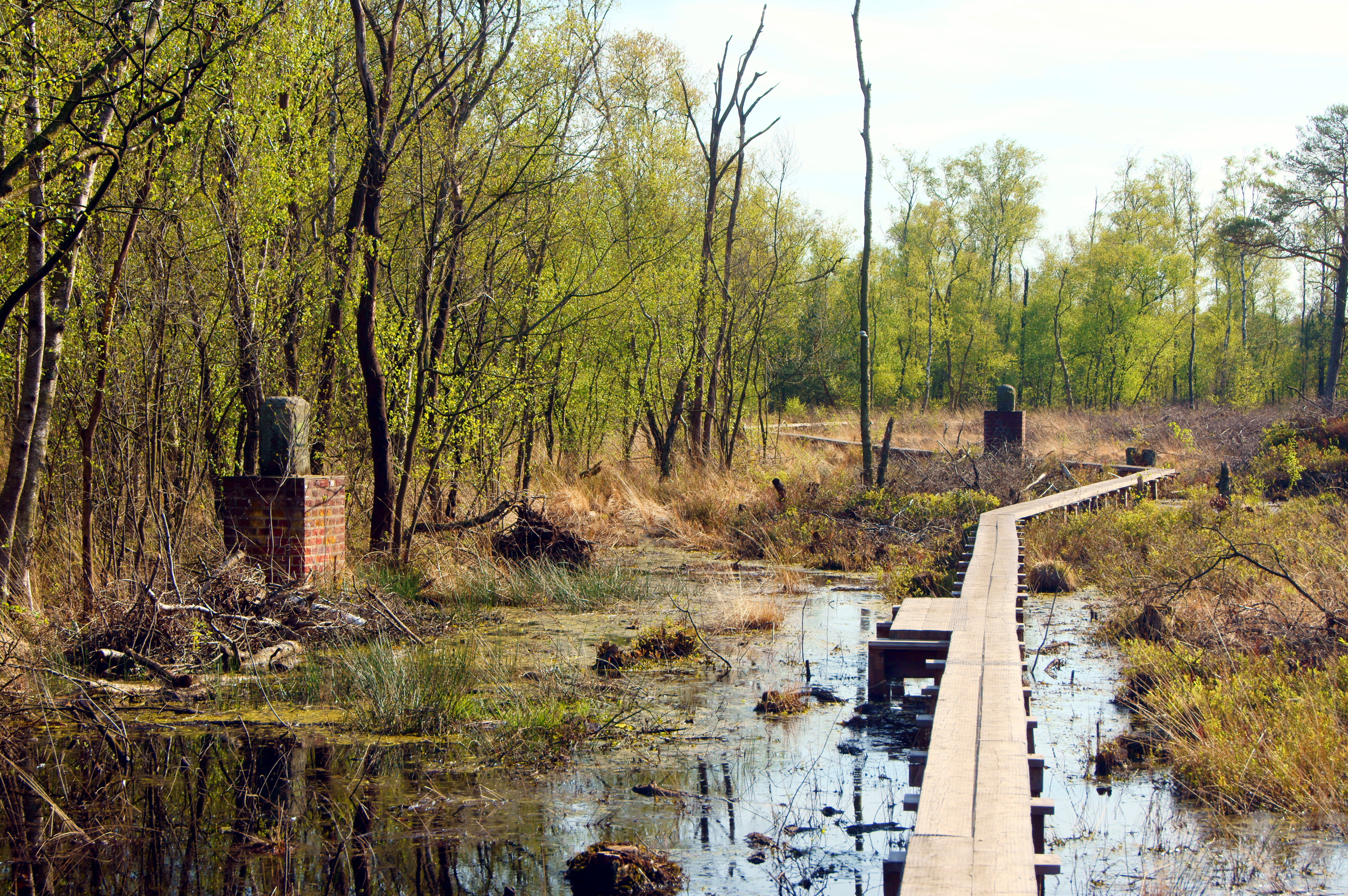 The border between Germany and the Netherlands in the boglands called Wooldse Veen (NL) / Burlo-Vardingholter Venn (DE) is marked with old boundary stones from 1766.